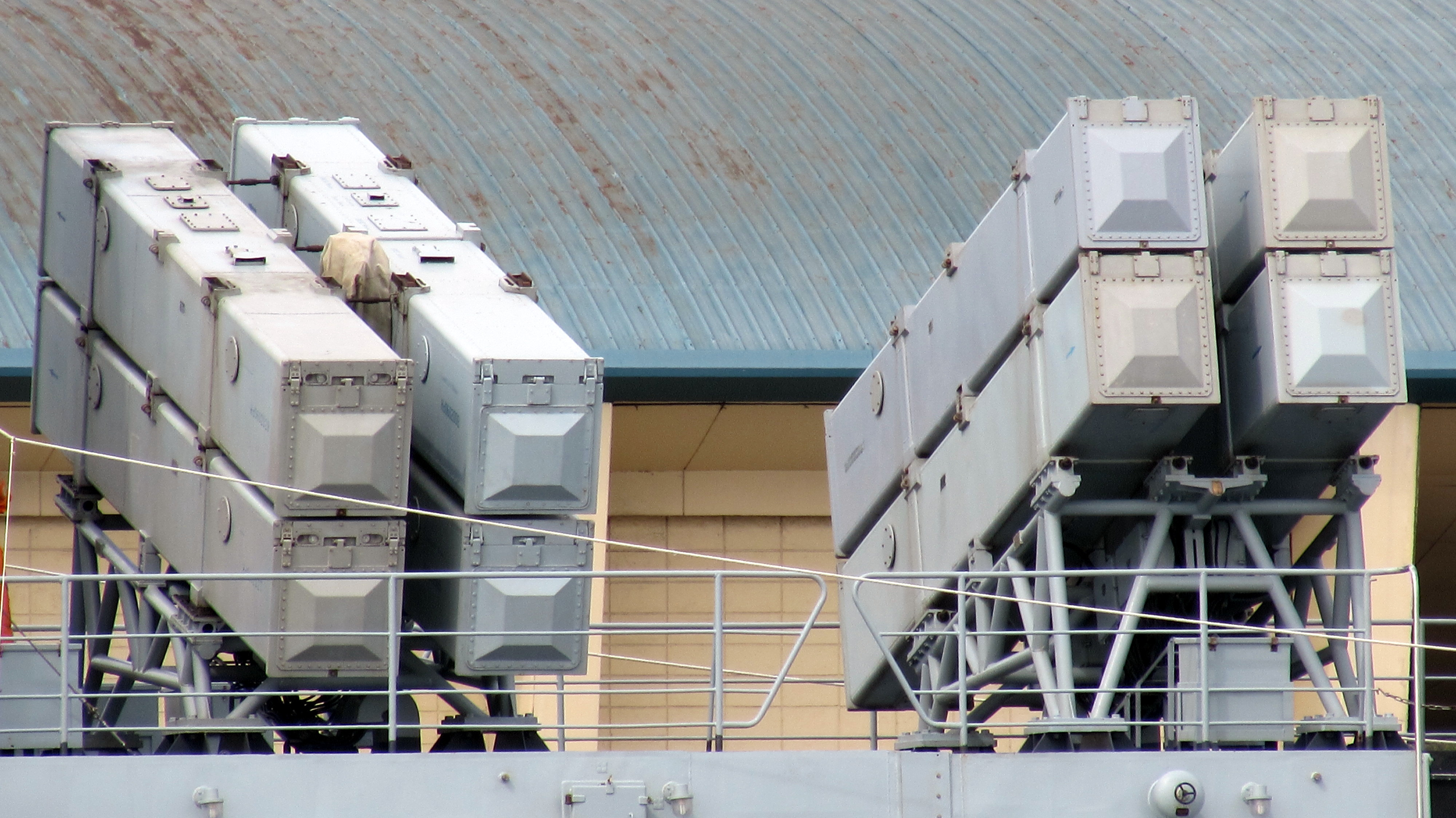 All eight Cannister Launchers for the C-802 (upgraded expore version of the YJ-8) Anti-Ship Missile of the PNS Saif (253), an F-22P Zulfiquar (Sword) class Frigate of the Pakistan Navy. Photo taken at the Manila South Harbor.